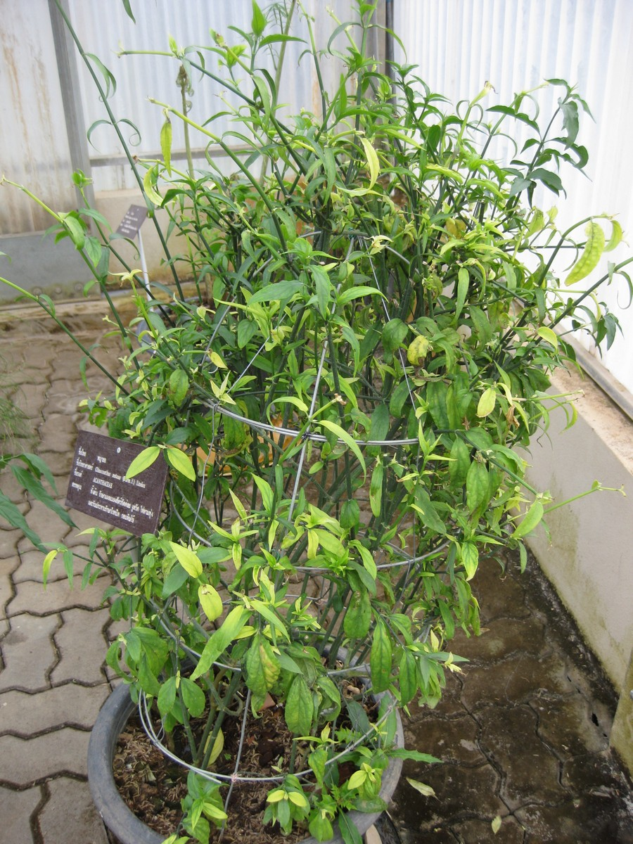 Clinacanthus nutans Lindau. Photographed at the Queen Sirikit Botanic Garden (Chiang Mai Province, Thailand) in March